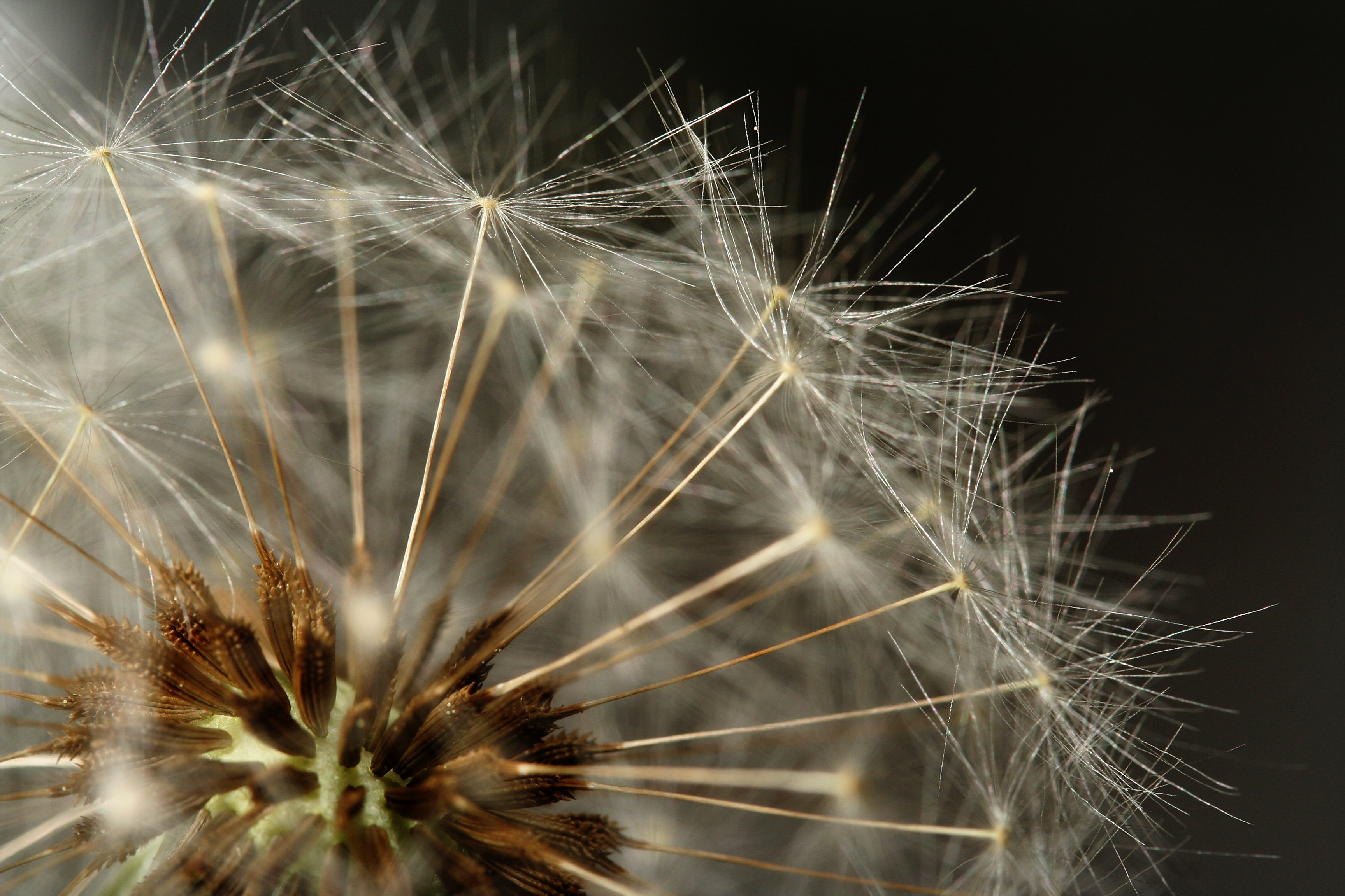 Dandelion clock